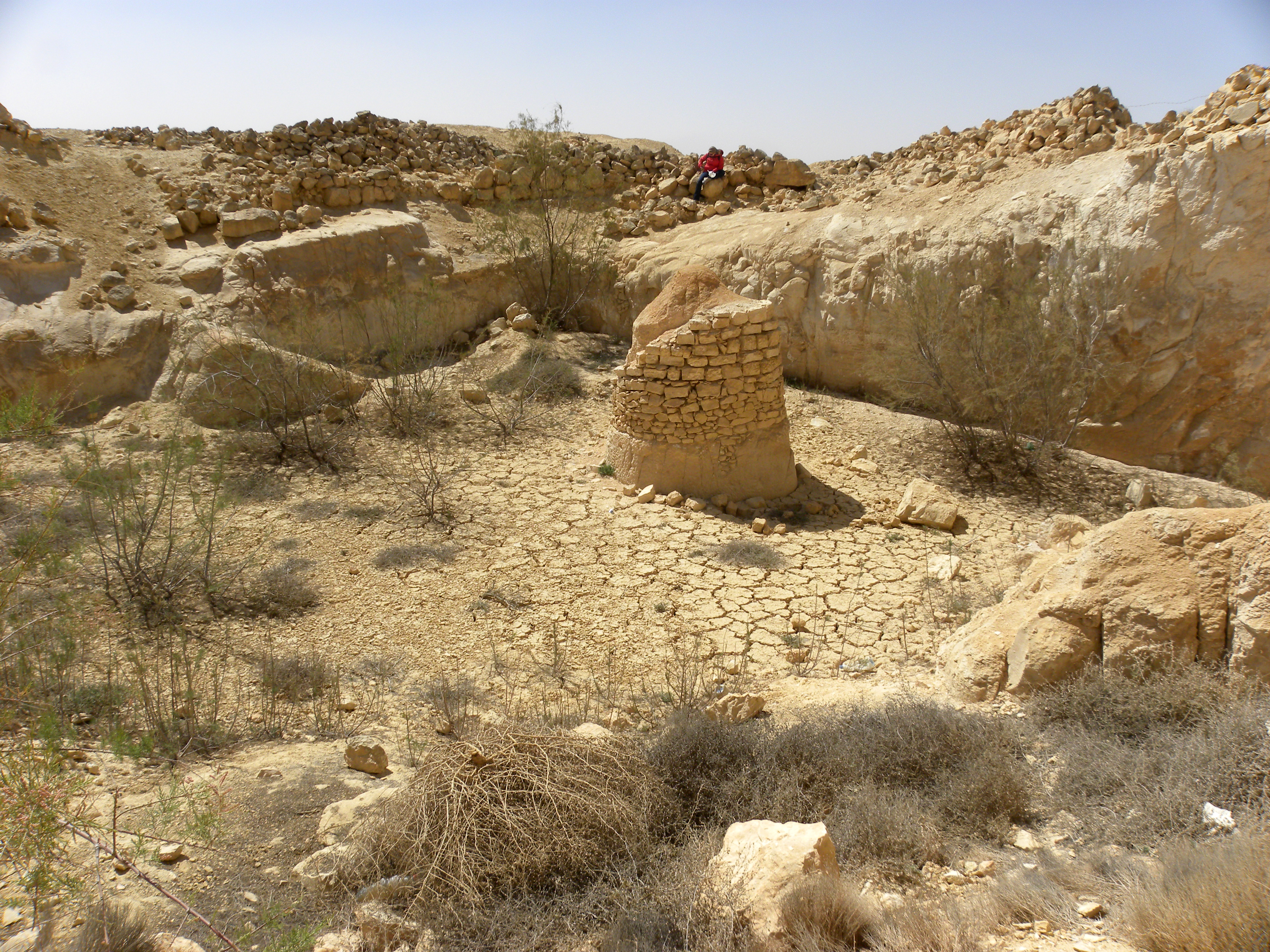 Nabatean cistern north of Makhtesh Ramon, southern Israel.